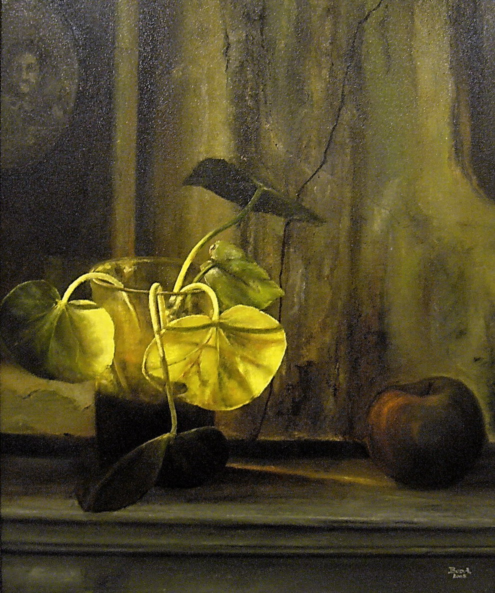 Still-Real-Life by Balázs Boda, 2005. 50x65cm, oil, canvas.